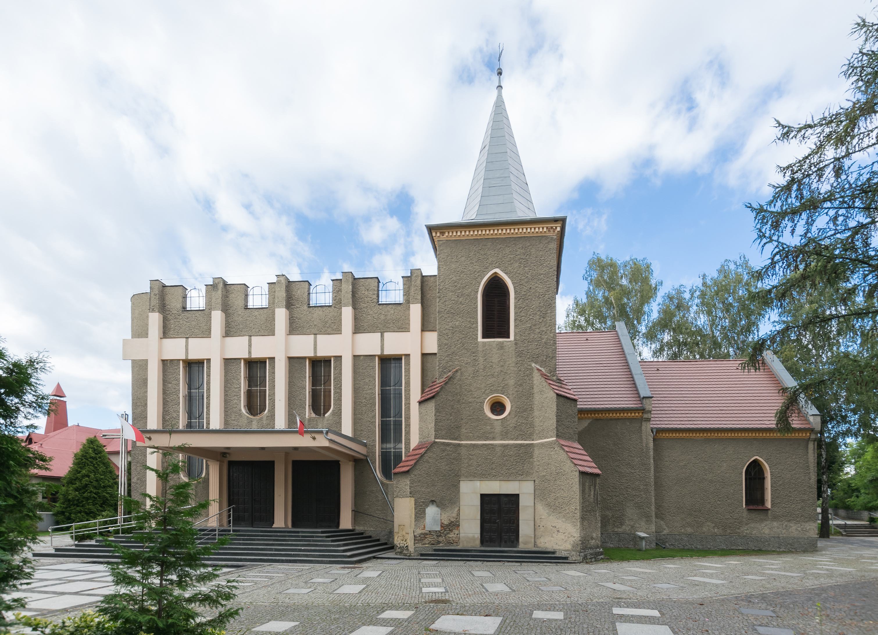 Saint Martin church in Piława Górna